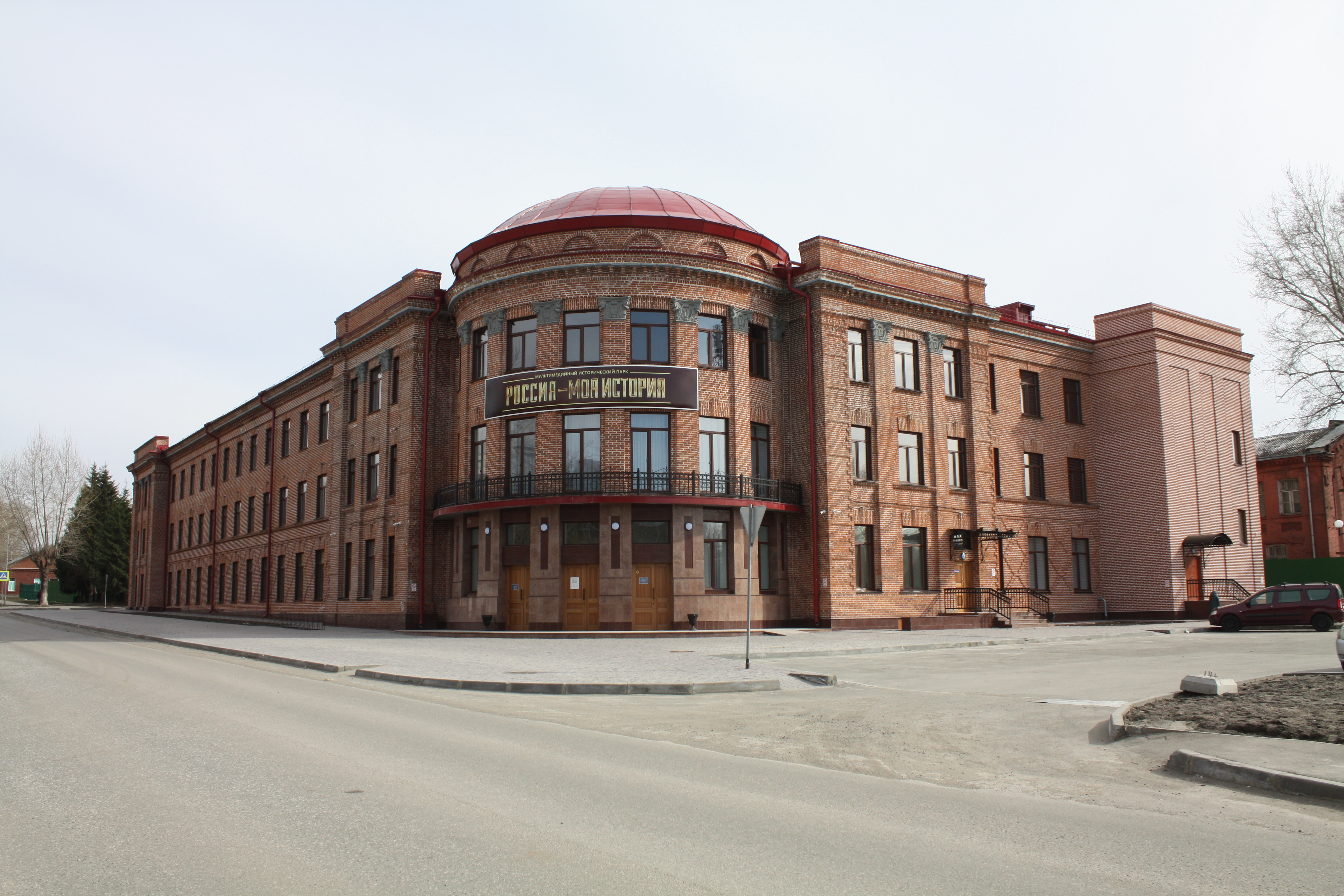 Окружной Дом Офицеров (ул. Василия Старощука, 24), Военный городок, Октябрьский район, Новосибирск.